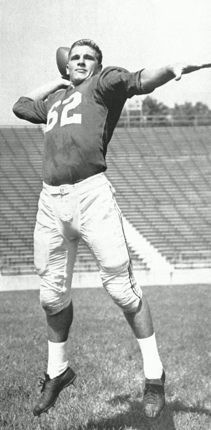 Quarterback Jack Scarbath in a staged photograph while at the University of Maryland